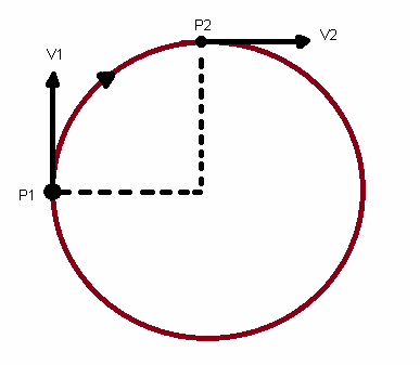 Raio vetor